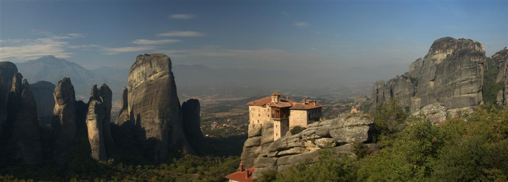 Meteora, Greece